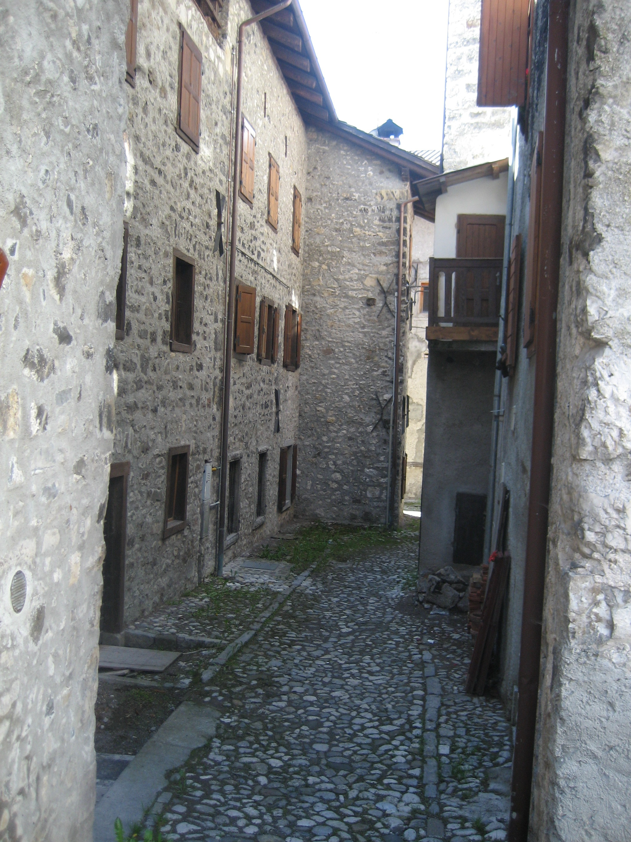 Street in Forni di Sopra